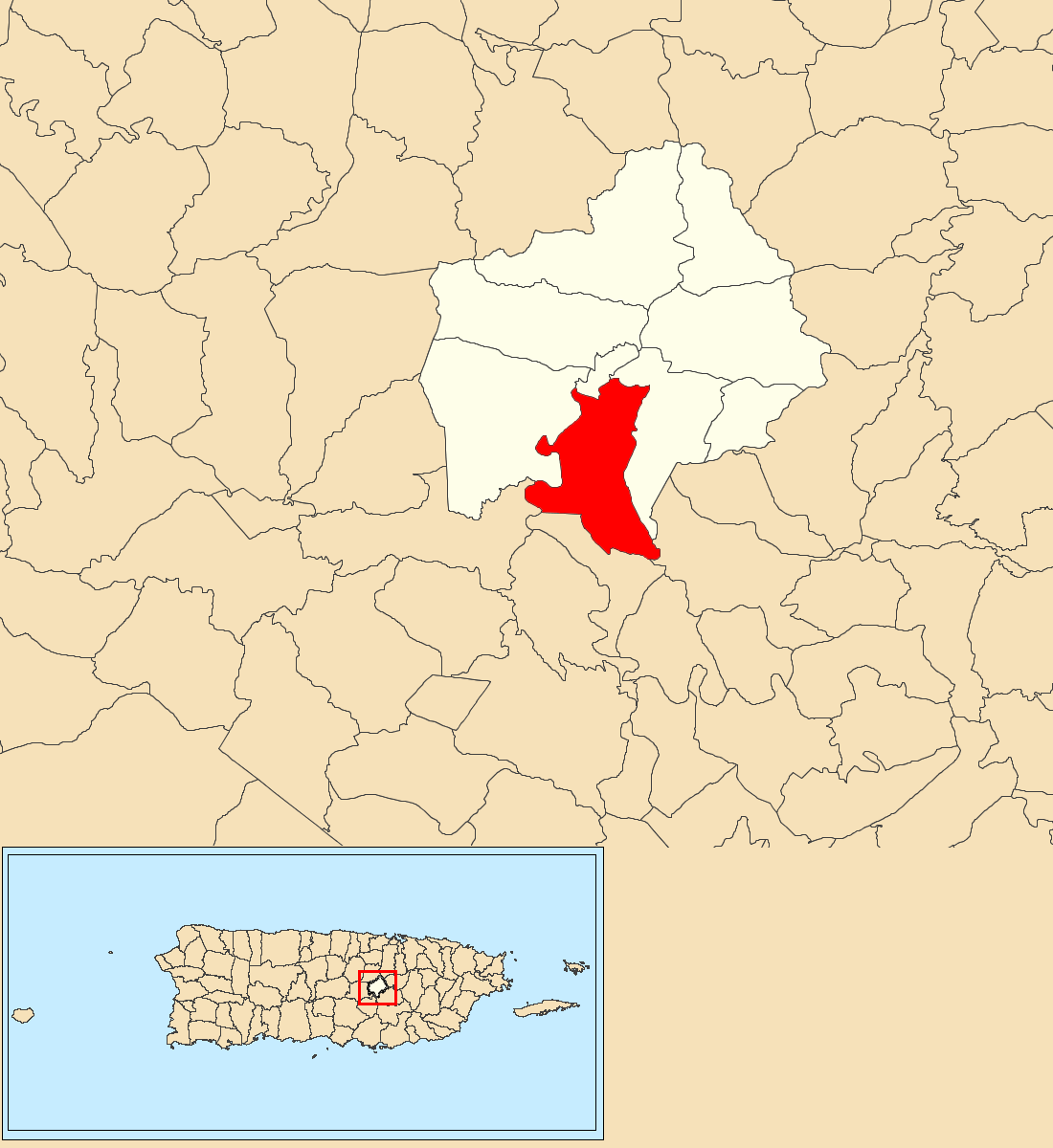 Piñas, Comerío, Puerto Rico locator map